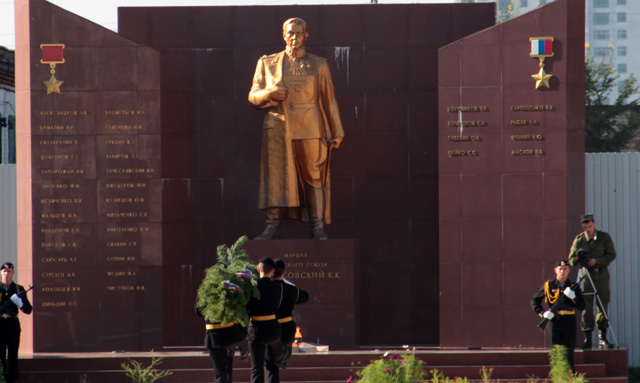 ДВВКУ